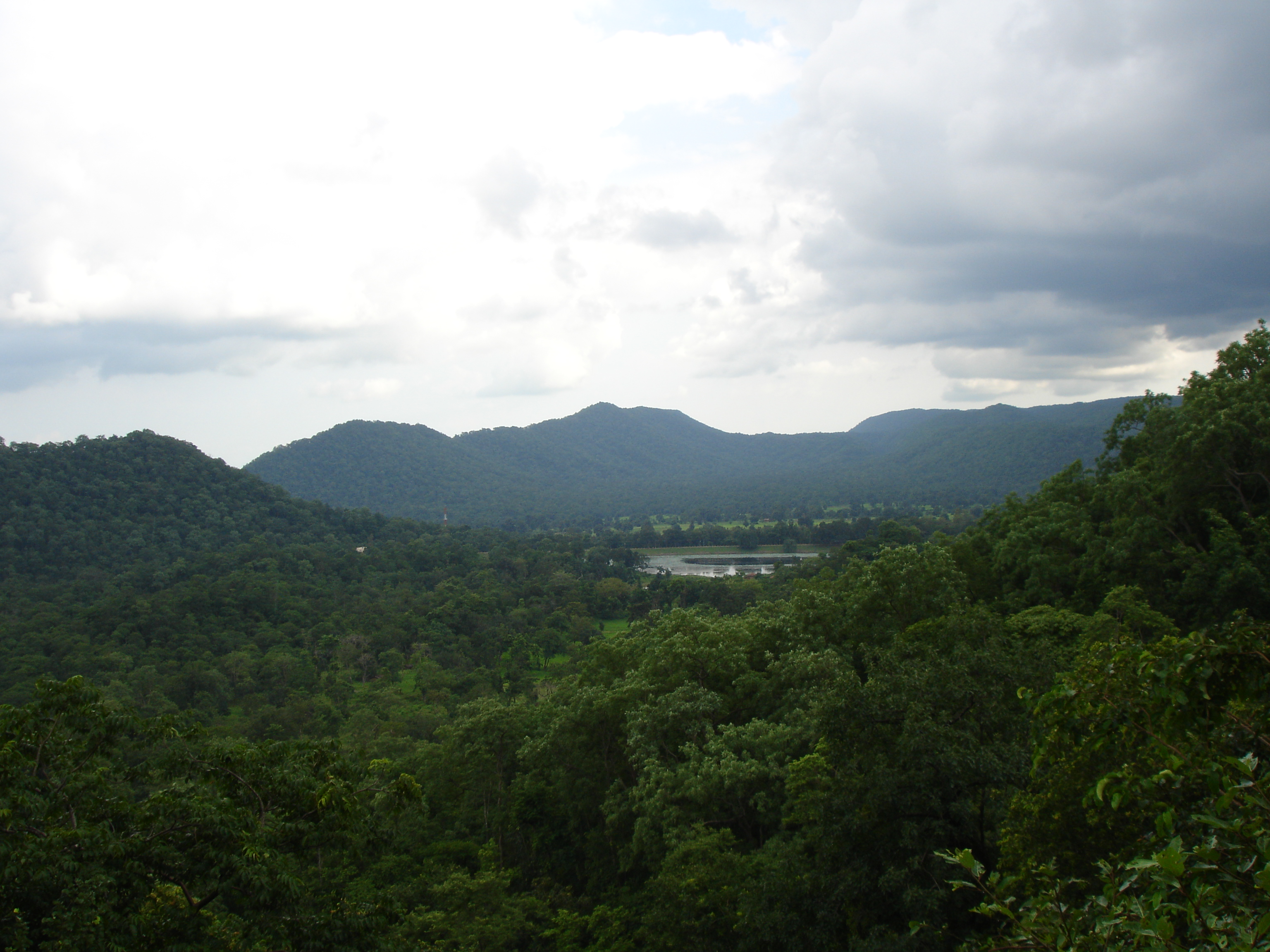 Maikal Hills during rainy season in Kabirdham District of Chhattisgarh, India.